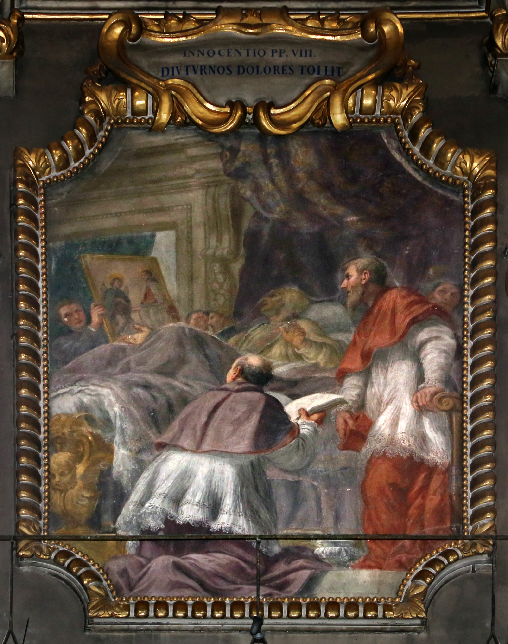 Santissima Annunziata (Florence) - Main nave